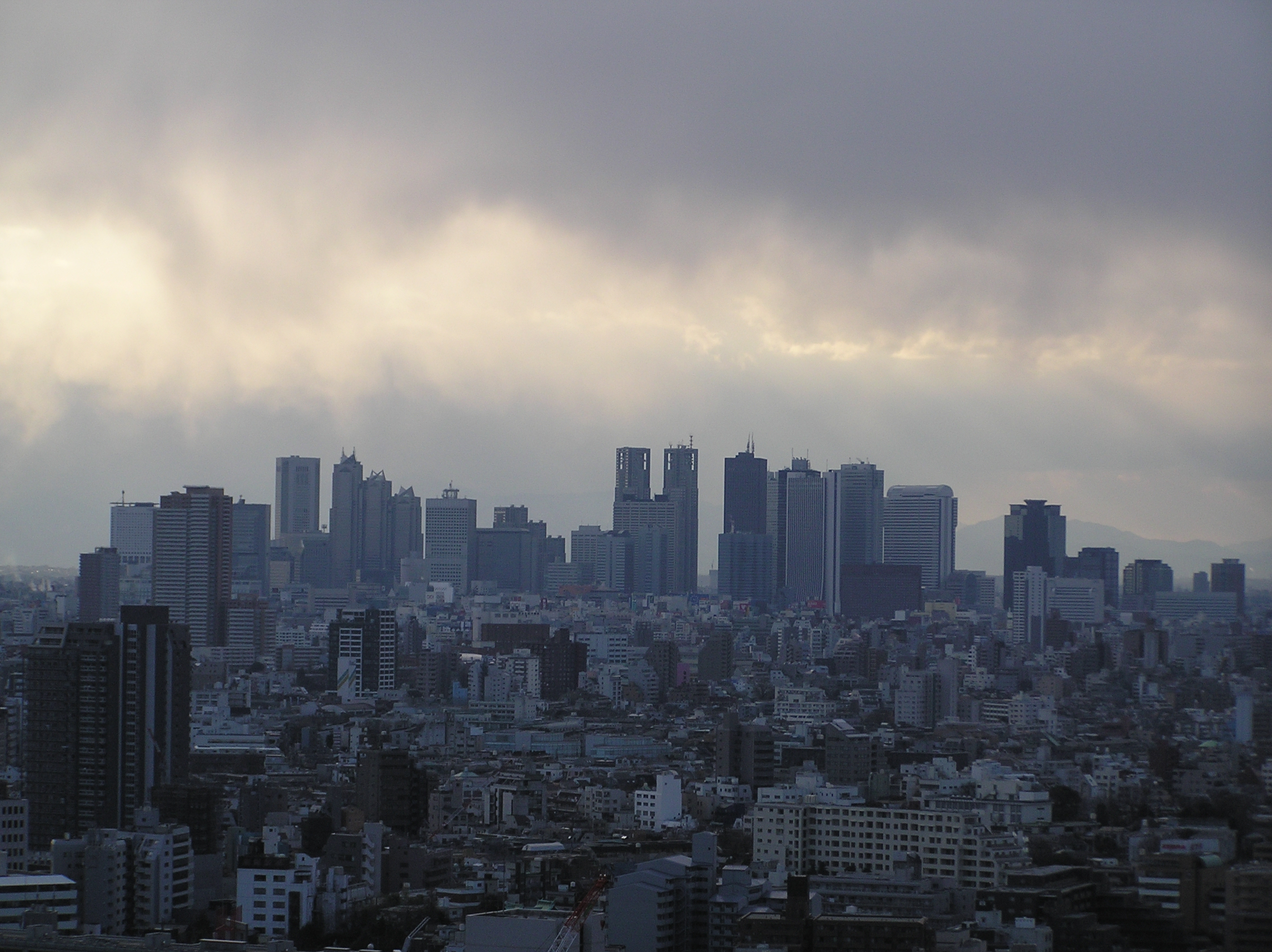 Skyscrapers of Shinjuku